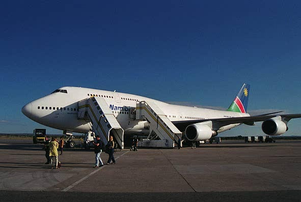 Air Namibia B747-400 aircraft at Windhoek Hosea Kutako International Airport (WDH)